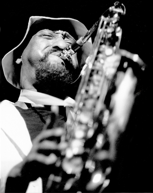 Sonny Rollins performing solo at the San Francisco Opera House Feb. 22, 1982, a benefit concert for ailing SF Chronicle writer Conrad Silvert. - Brian McMillen photo /